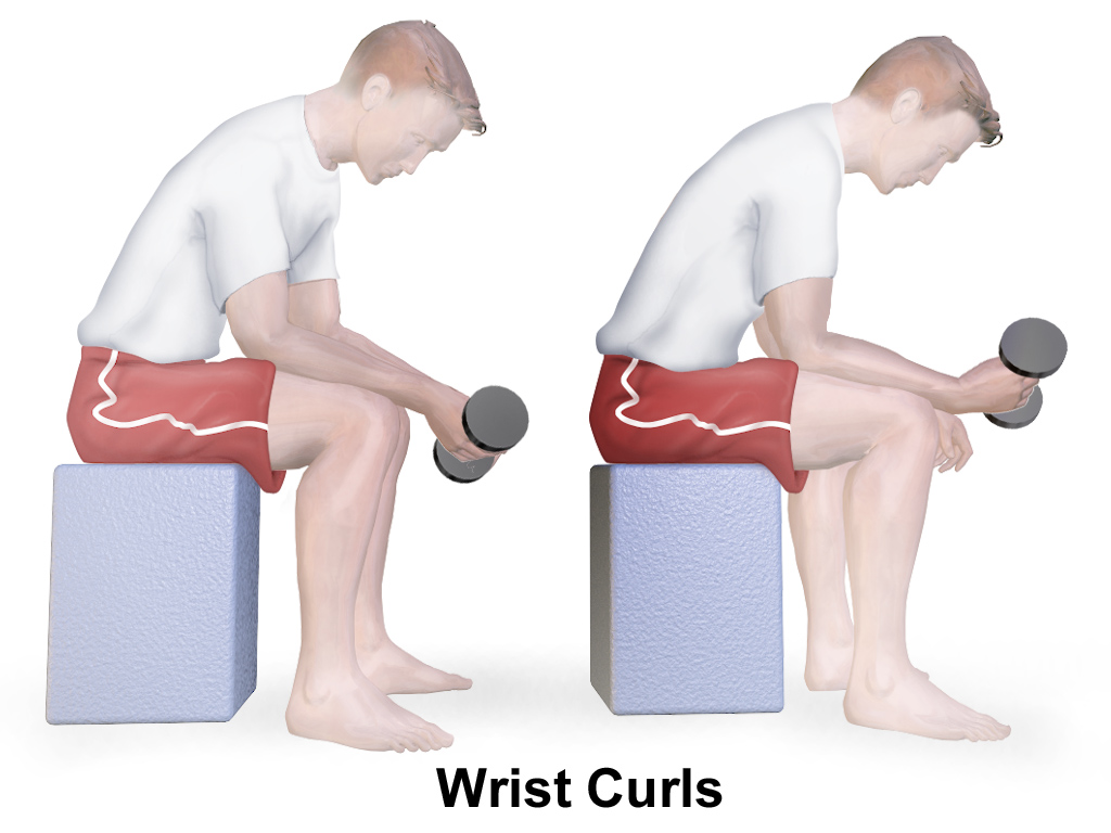 An illustration depicting wrist curls.